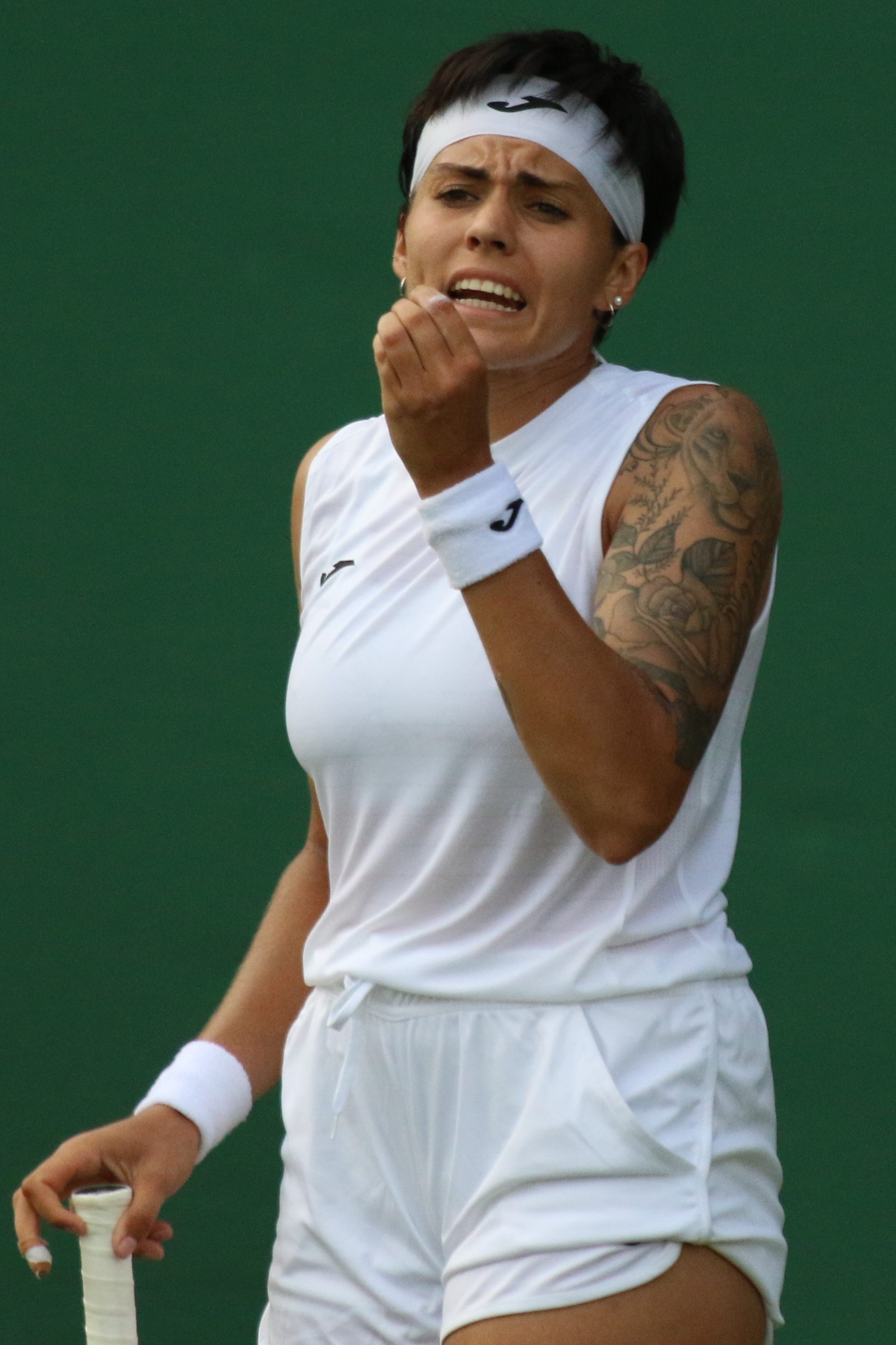 2019 Wimbledon Qualifying Tournament.